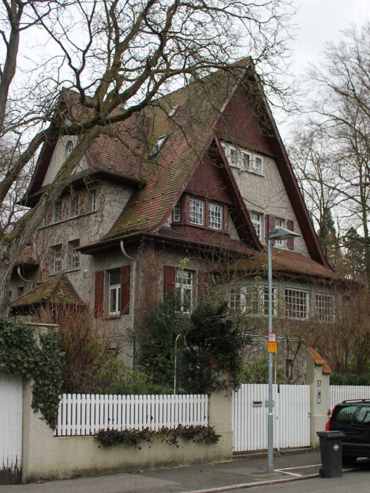 Villa Dopfer, Gutenbergstraße 37 in Heilbronn